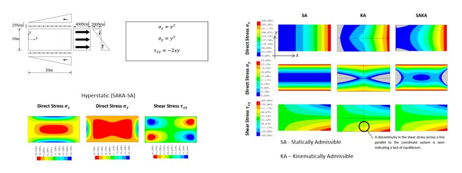 The hyperstatic stress field necessary to satisfy the compatibility relations for a simple plate membrane problem is shown.